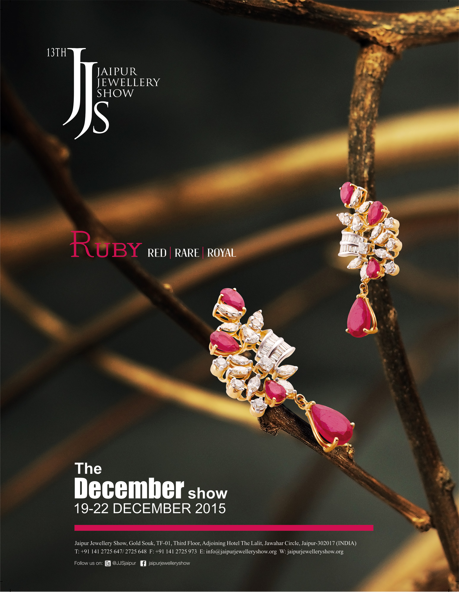 This is Jaipur Jewellery Show Theme poster of Year 2015. The Theme is Ruby- Red, Rare, Royal.